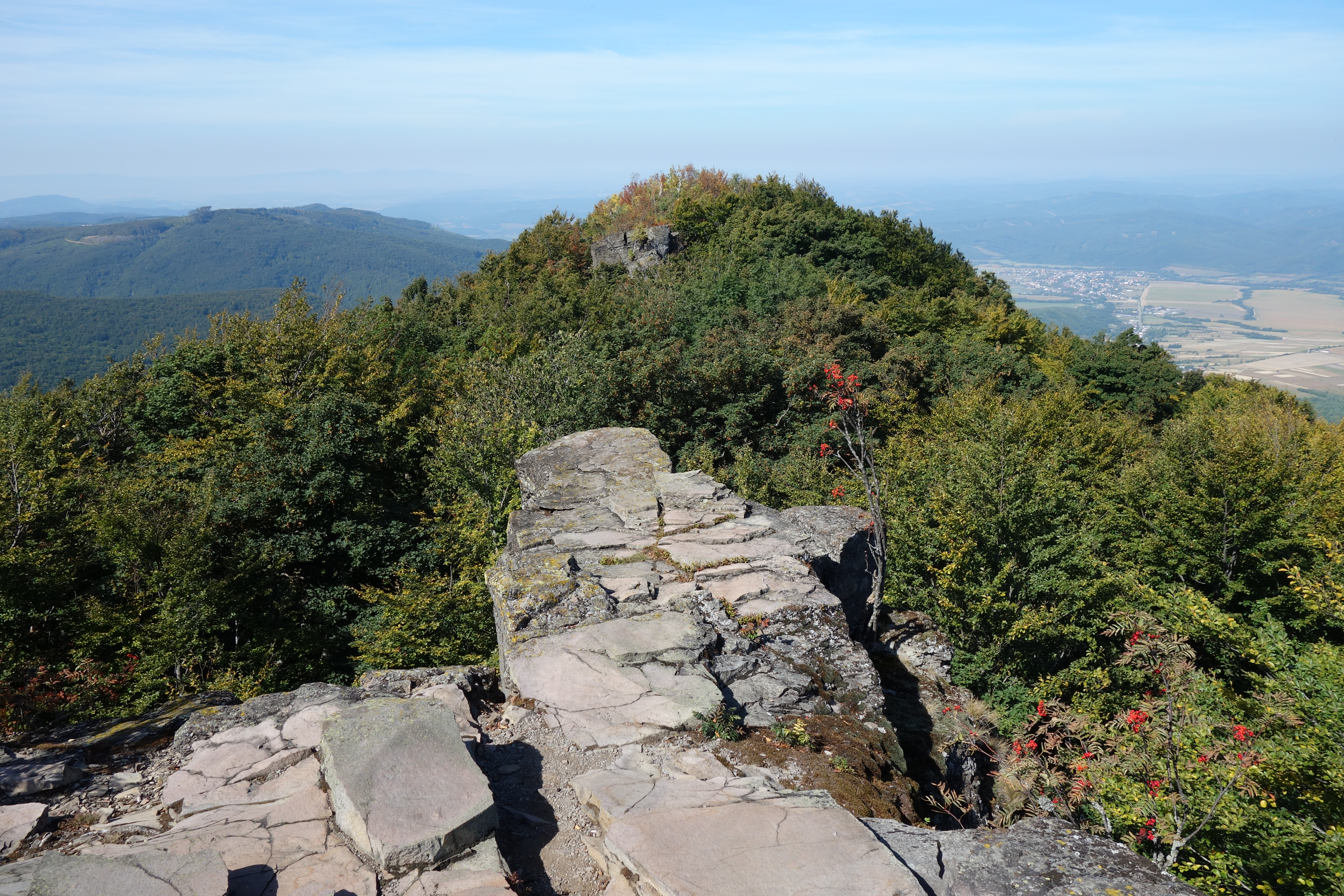 View of the Big Sninský kameň from the Small Sninský kameň This is a photography of Natura 2000 protected area with ID SKUEV0209